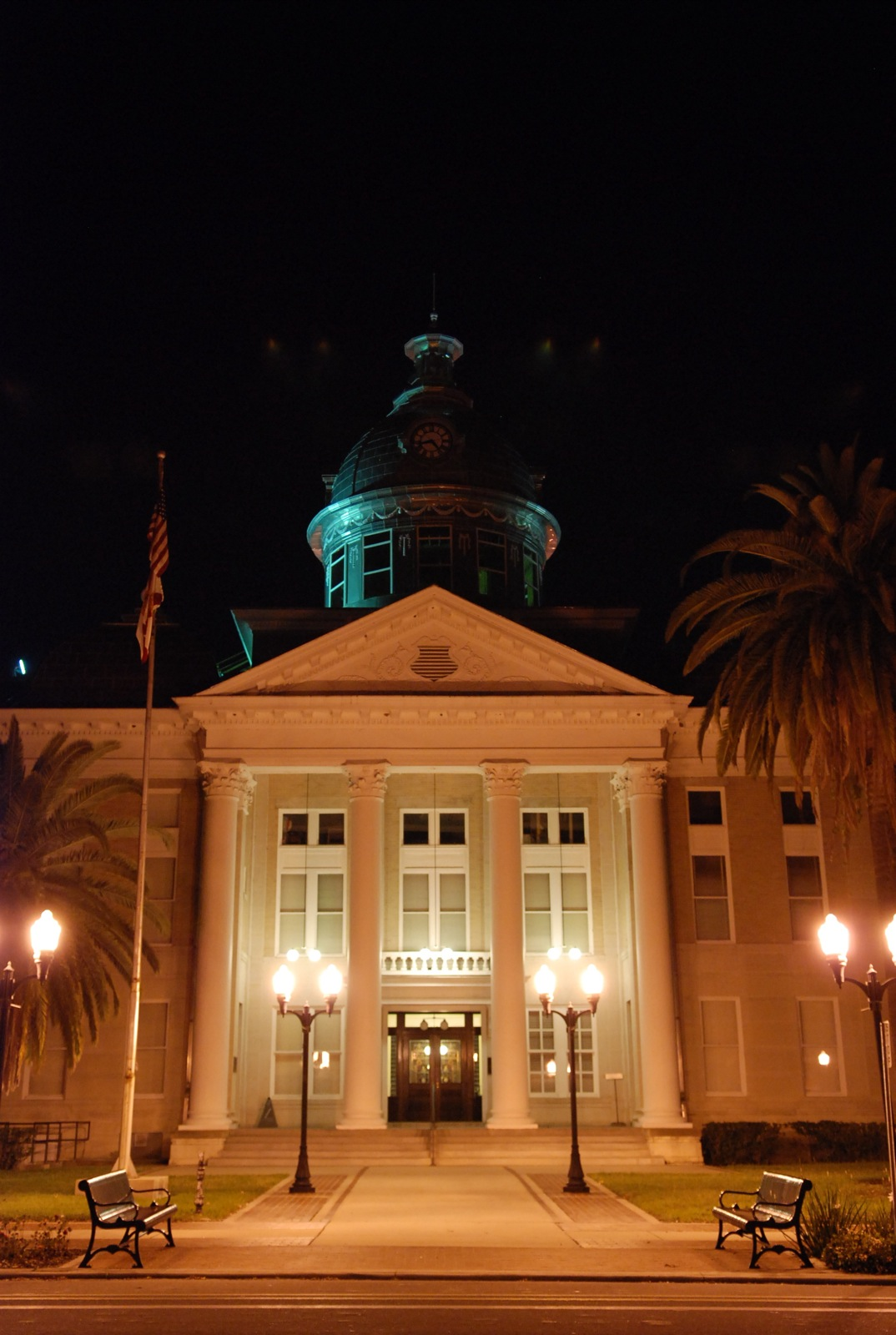 Old Polk County Courthouse at night